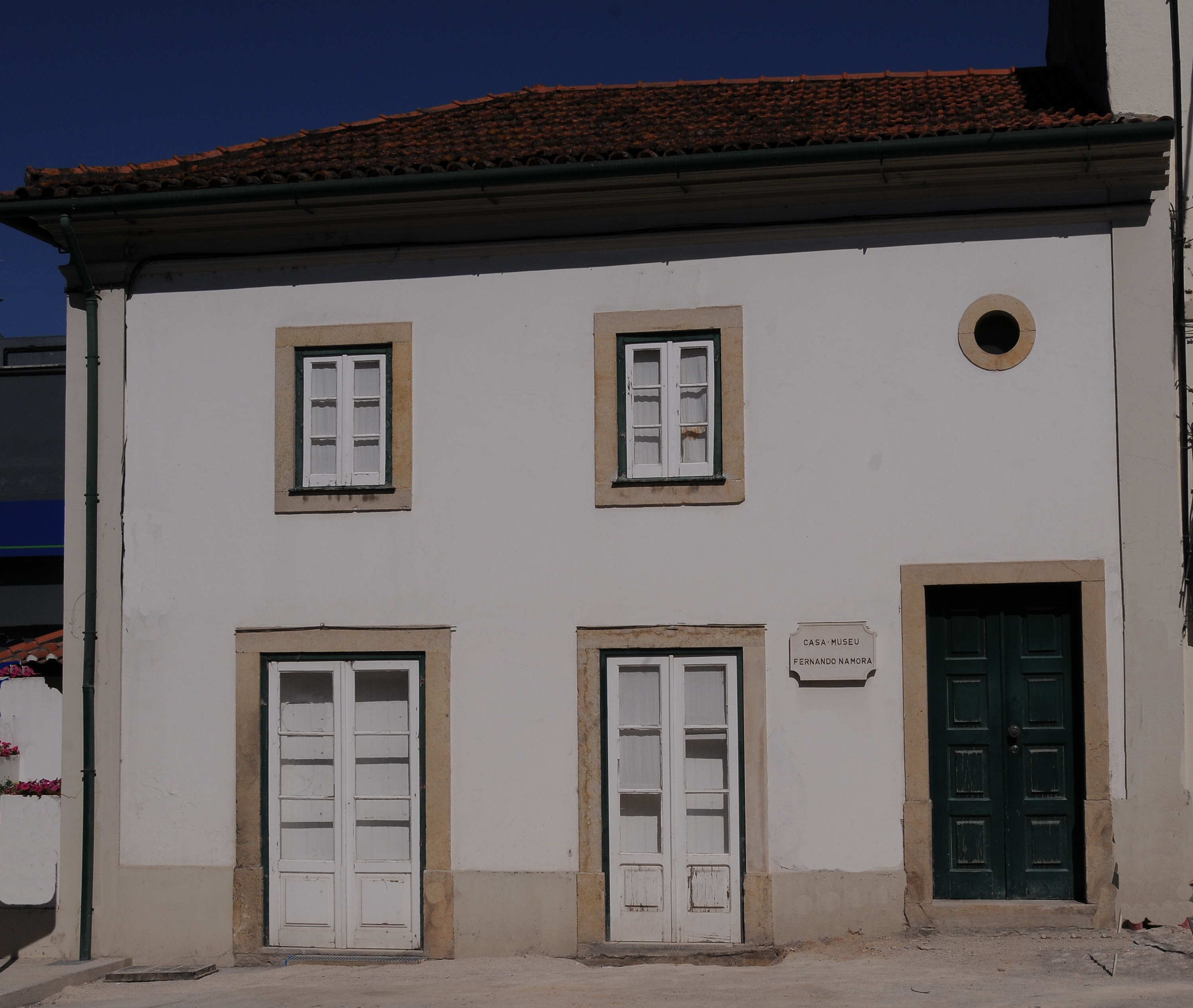 House of Fernando Namora in Condeixa, Portugal